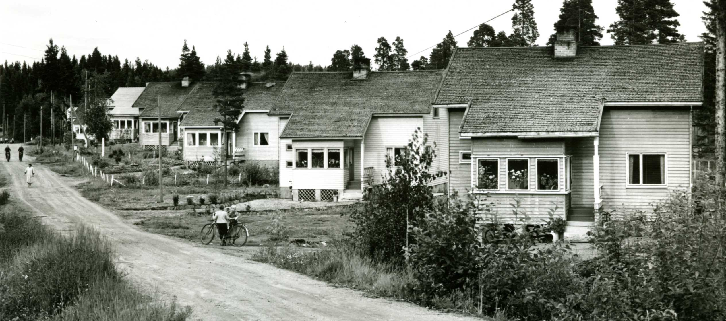 Oinaala district in Jämsä, Finland in 1956